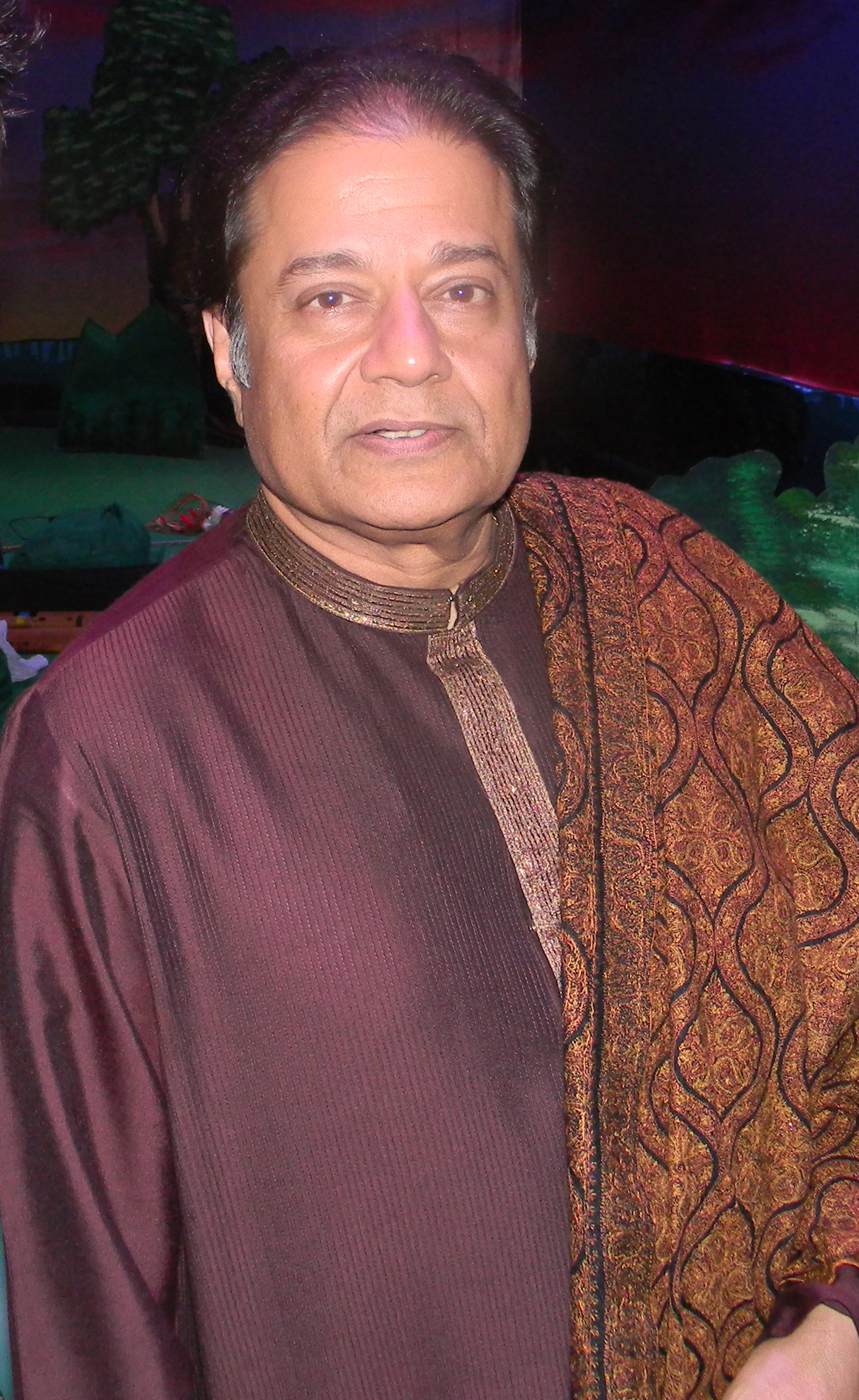 ପ୍ରାର୍ଥନା ଟିଭି ଦ୍ଵାରା ଆୟୋଜିତ ଏକ ସଙ୍ଗୀତ ସନ୍ଧ୍ୟା ରେ ଅନୁପ ଜଲୋଟା This media file is uploaded with Odia loves Wikipedia